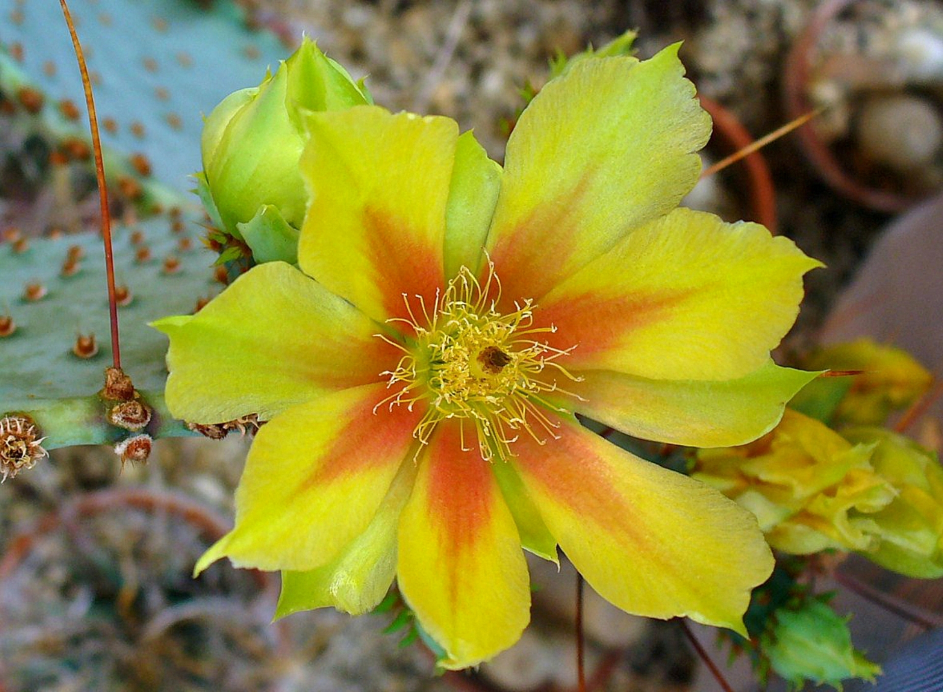 Violet Prickly Pear; Botanical Garden KIT, Karlsruhe, Germany.